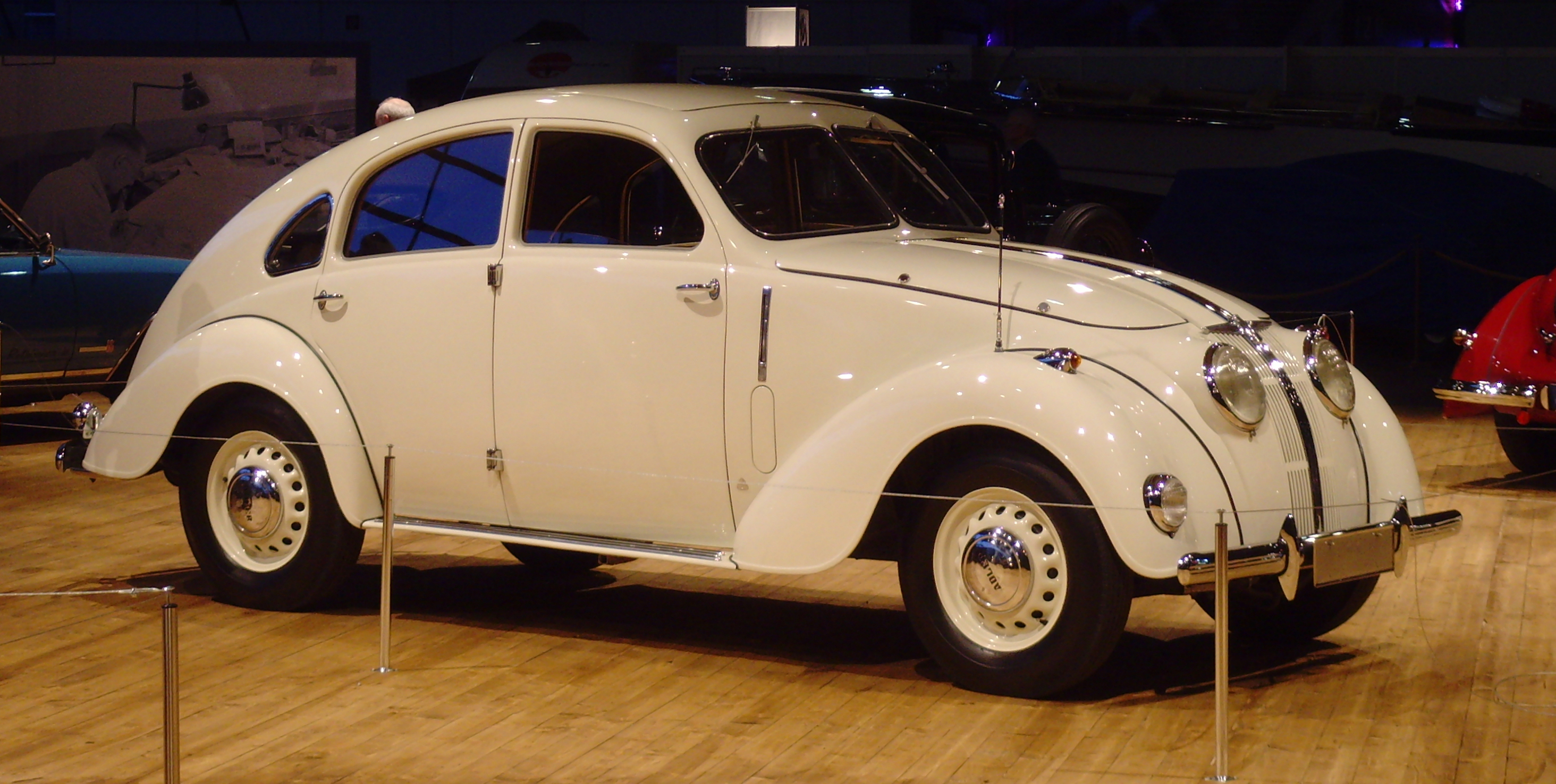 Adler 2,5 Liter "Autobahn" at the 2010 Bremen Classic Motorshow